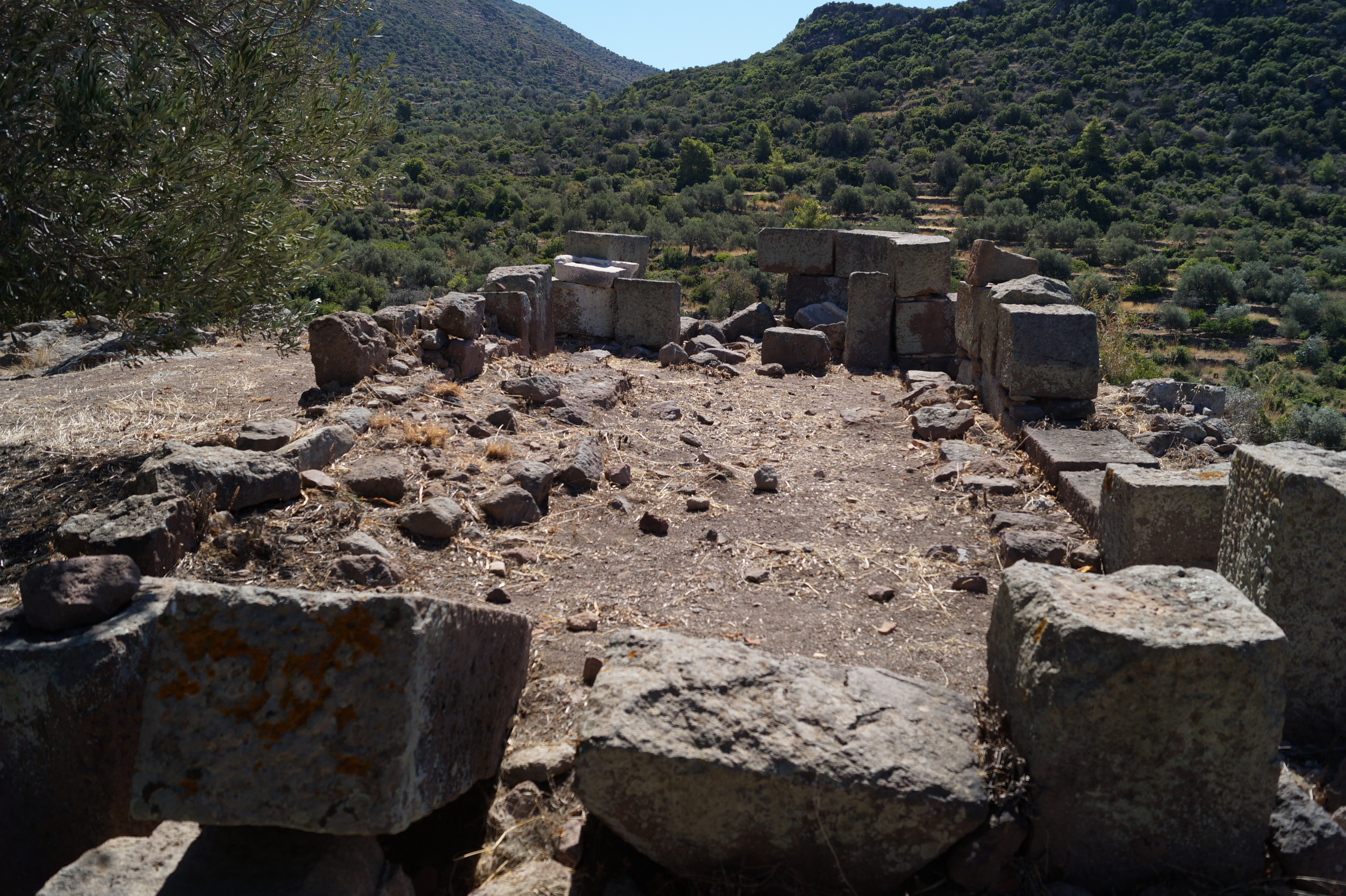 Acropolis Palaiokastro, Methana, Greece: Remains of the early christian church on the acropolis